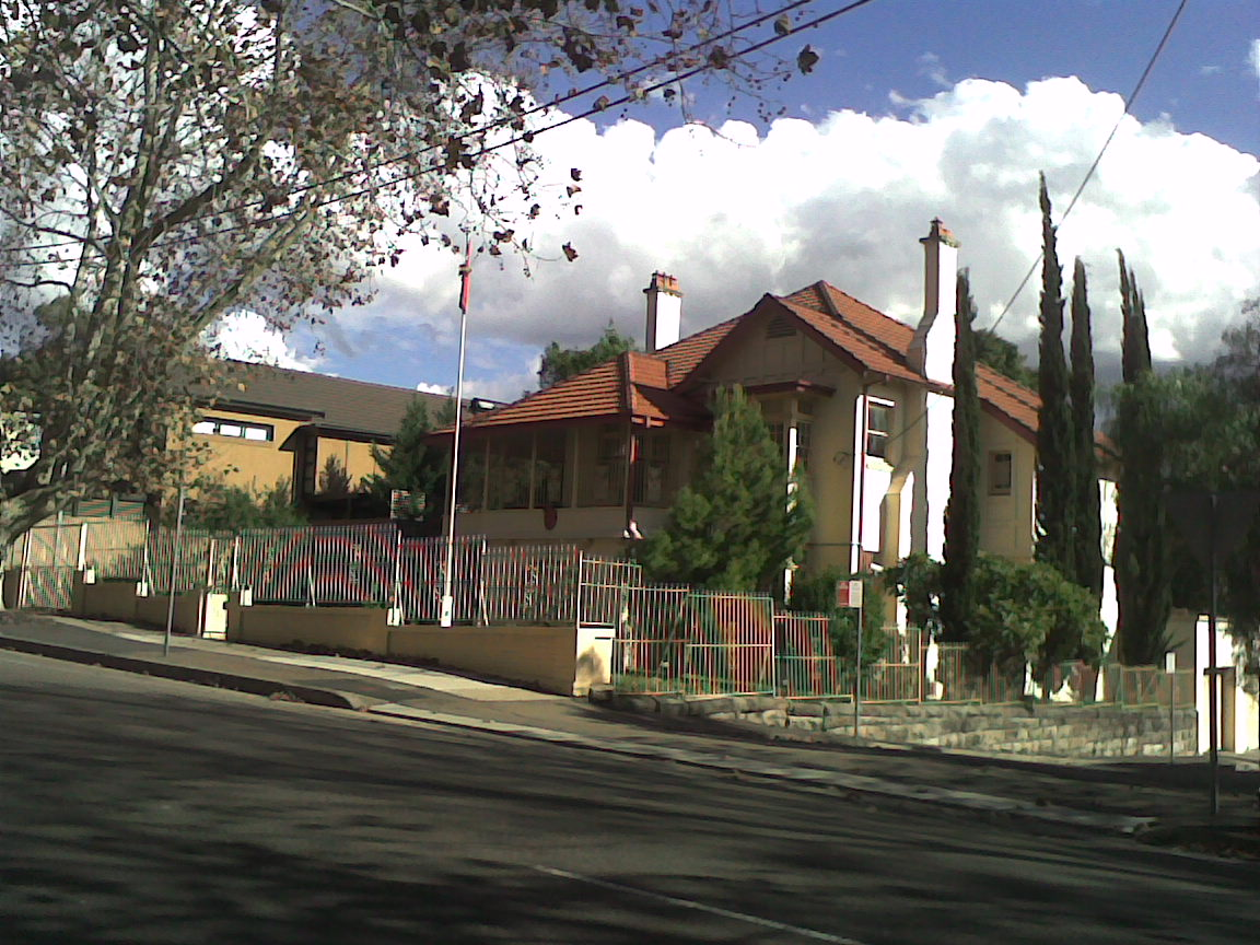 Turkish Consulate General in Sydney